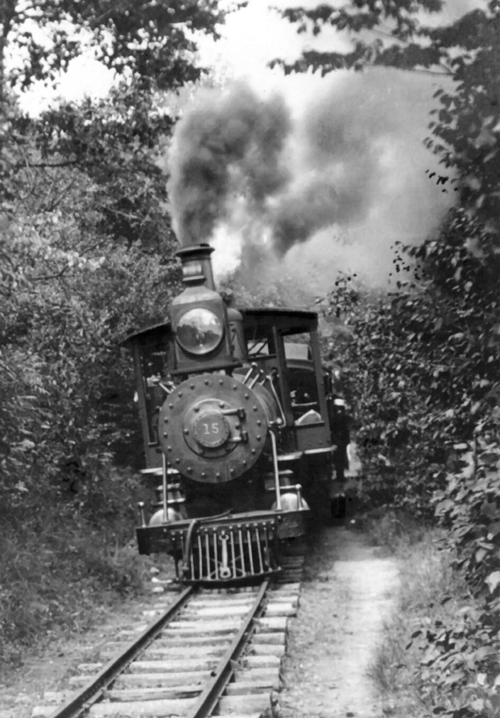 One of the three 4-4-0 narrow gauge steam locomotives of the Mount Gretna Narrow Gauge Railway.